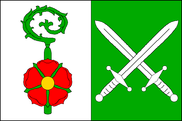 Flag of Boletice military training area, a quasimunicipality in Český Krumlov District, Czech Republic.